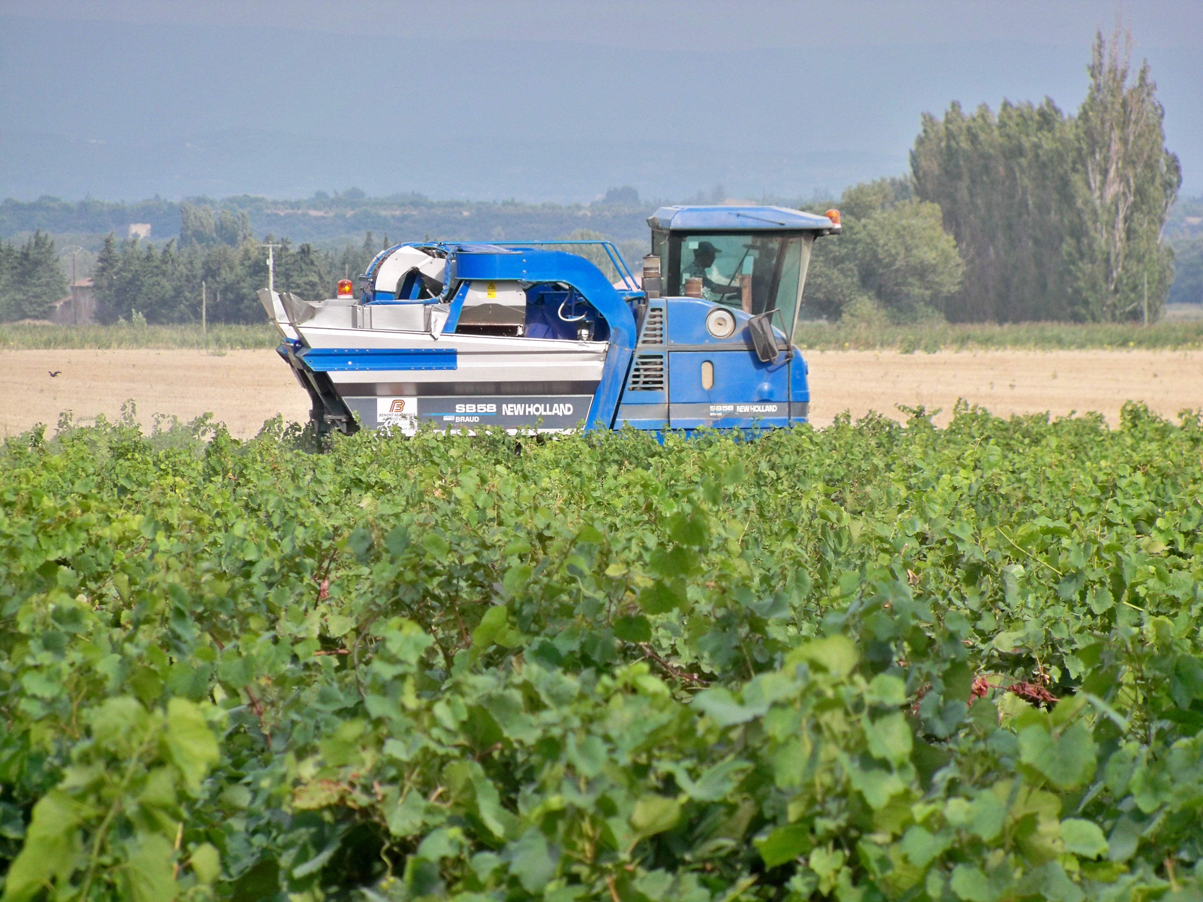 New Holland SB58 Braud grape harvester, Sarrians (Vaucluse, France)